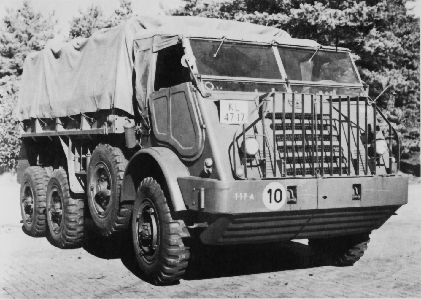 DAF YA-328 truck 3 ton Dutch Army.